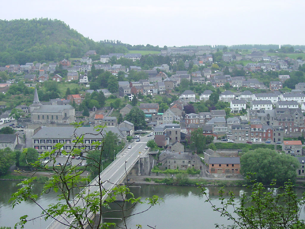 Photograph of Namêche from above, from the cliffs across the river Meuse.